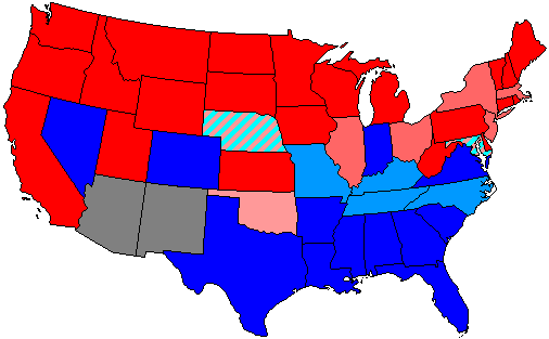 Summary of party control of U.S. house seats in the 61st United States Congress following election. Stripes indicate a tie between two or more parties. Legend: 80.1-100% Democratic seat majority 60.1-80% Democratic seat majority 60% or less Democratic seat plurality 60% or less Republican seat plurality 60.1-80% Republican seat majority 80.1-100% Republican seat majority